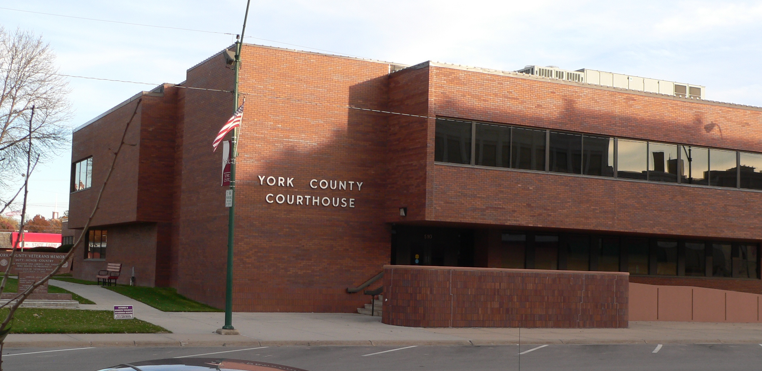 York County Courthouse, located at 510 Lincoln Ave, York, Nebraska.